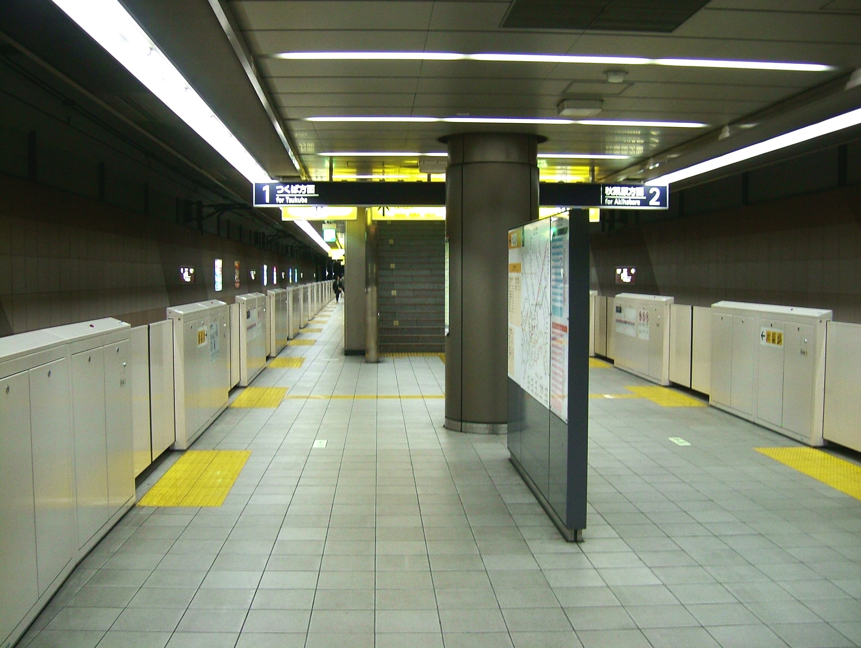 The platform at Minami-Nagareyama Station on the Tsukuba Express in Nagareyama city, Chiba prefecture, Japan